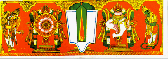 A drawing of the Vaishnavite namam mark